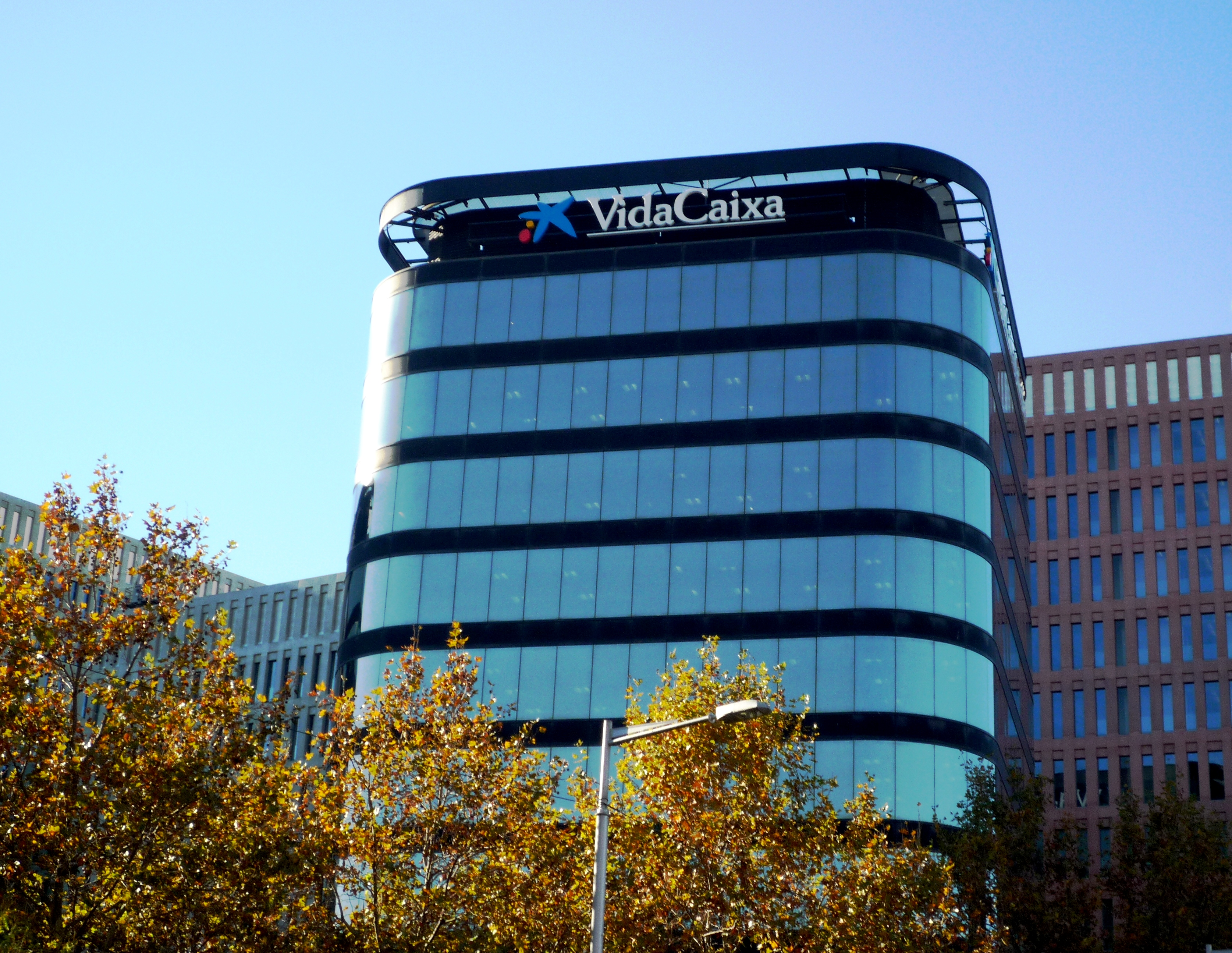 Vidacaixa Headquarters